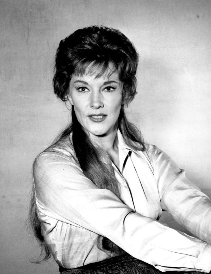 Publicity photo of Jeanne Cooper in 1964